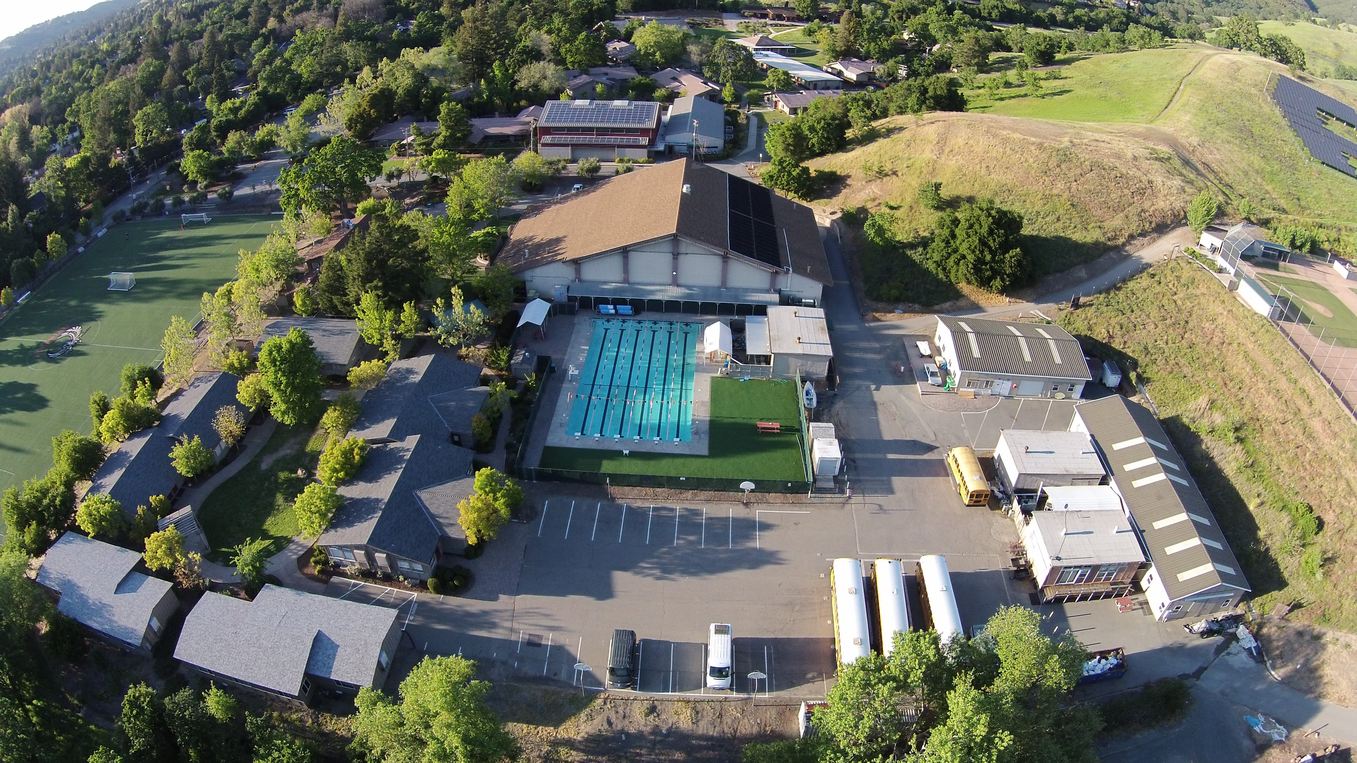 Aerial View of Athenian School Pool Area